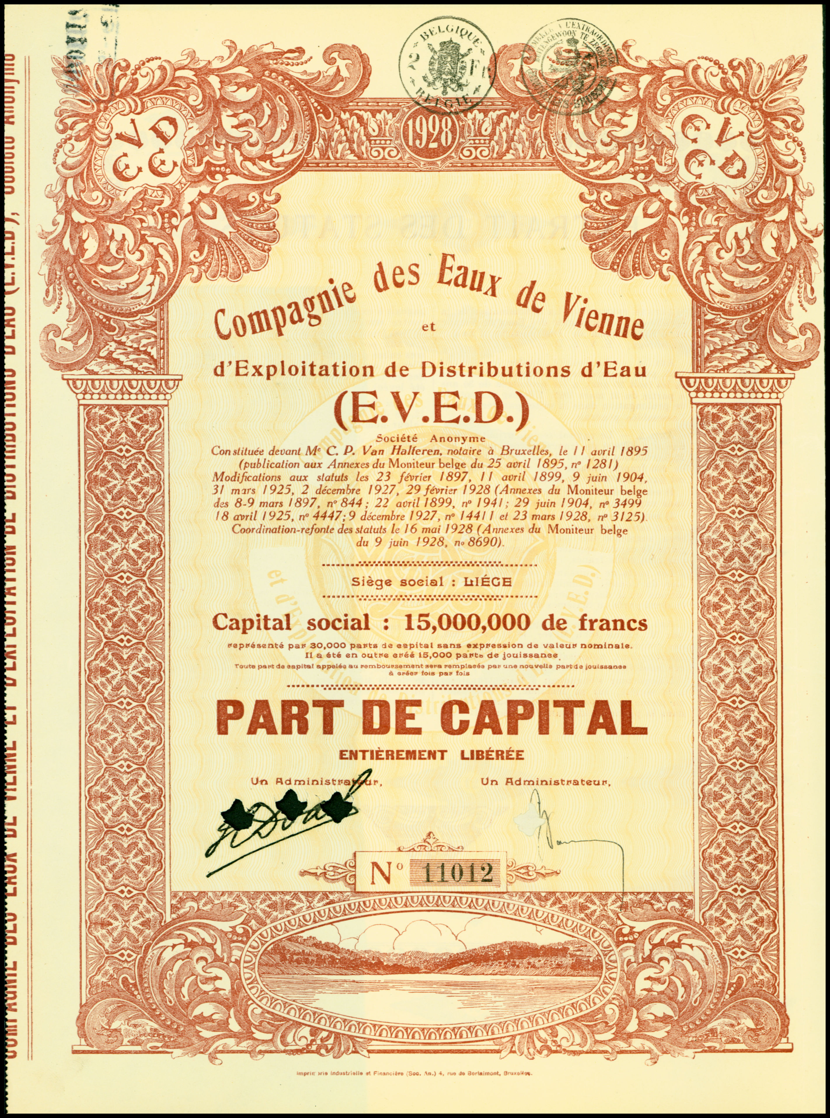 Share of the Comp. des Eaux de Vienne, issued 9. July 1928